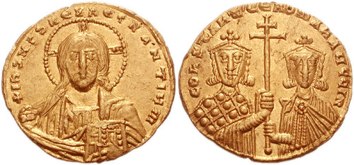 Constantine VII Porphyrogenitus, with Romanus II. 913-959. AV Solidus (20mm, 4.43 g). Constantinople mint. Struck 945-959. Facing bust of Christ, raising hand in benediction and holding Gospels / Crowned facing busts of Constantine VII and Romanus II, holding patriarchal cross between them; pellet at base. DOC 15; SB 1751. VF, a few light scratches and marks and a scuff across Christ’s face.